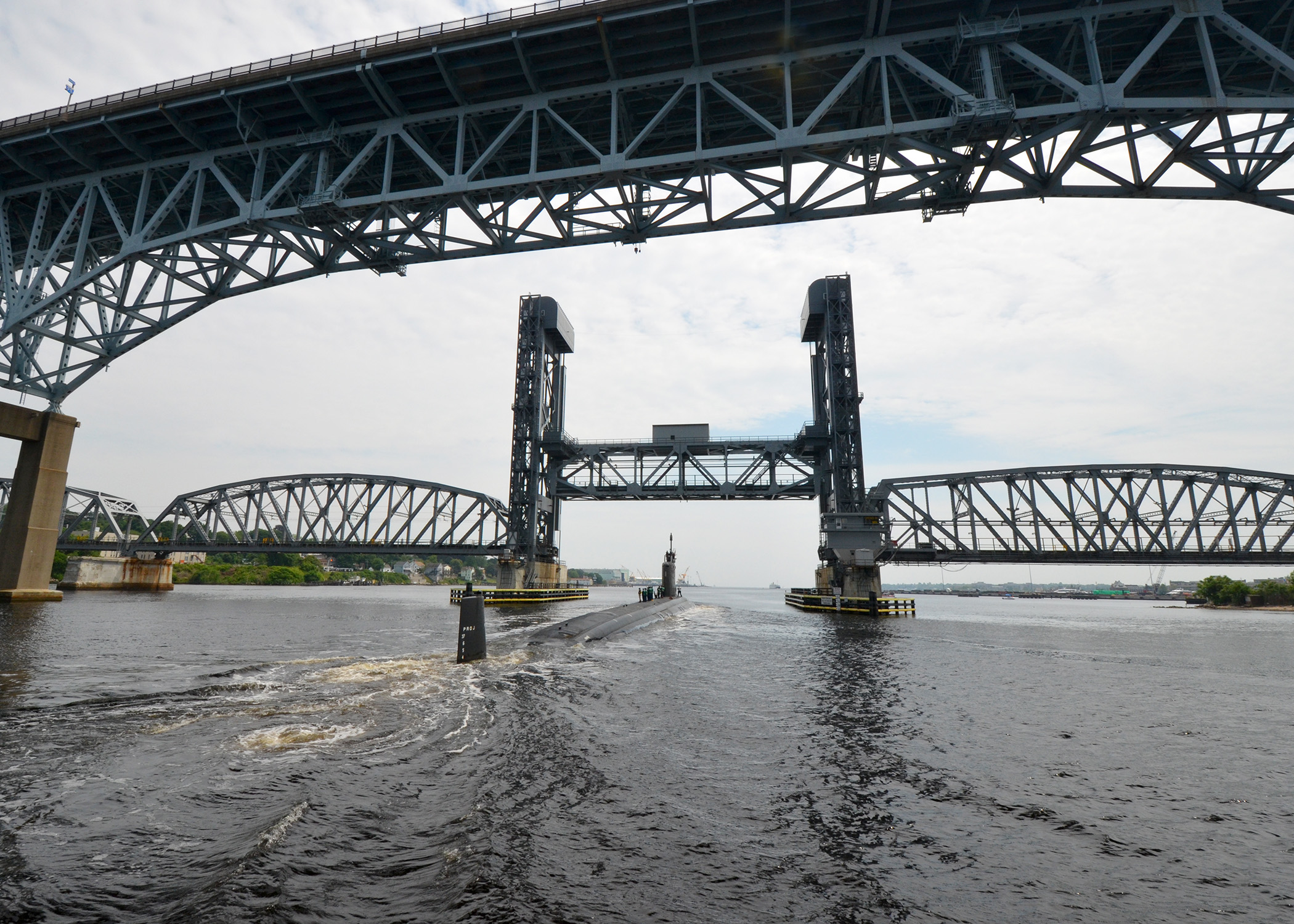 GROTON, Conn (June 18, 2013) The Virginia-class attack submarine USS Missouri (SSN 780) passes under the Gold Star Bridge towards Amtrak's Thames River Bridge that spans from New London to Groton, CT, as it departs Naval Submarine Base New London for a scheduled deployment.